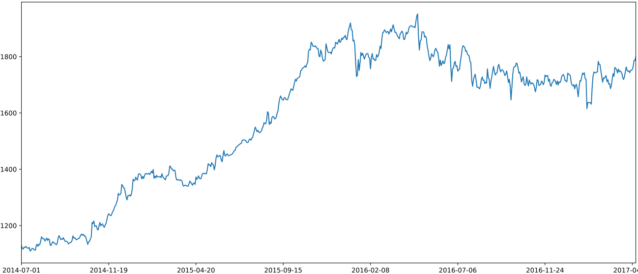 OMXI8 Performance Chart; data from Quandl, visualised with python and matplotlib